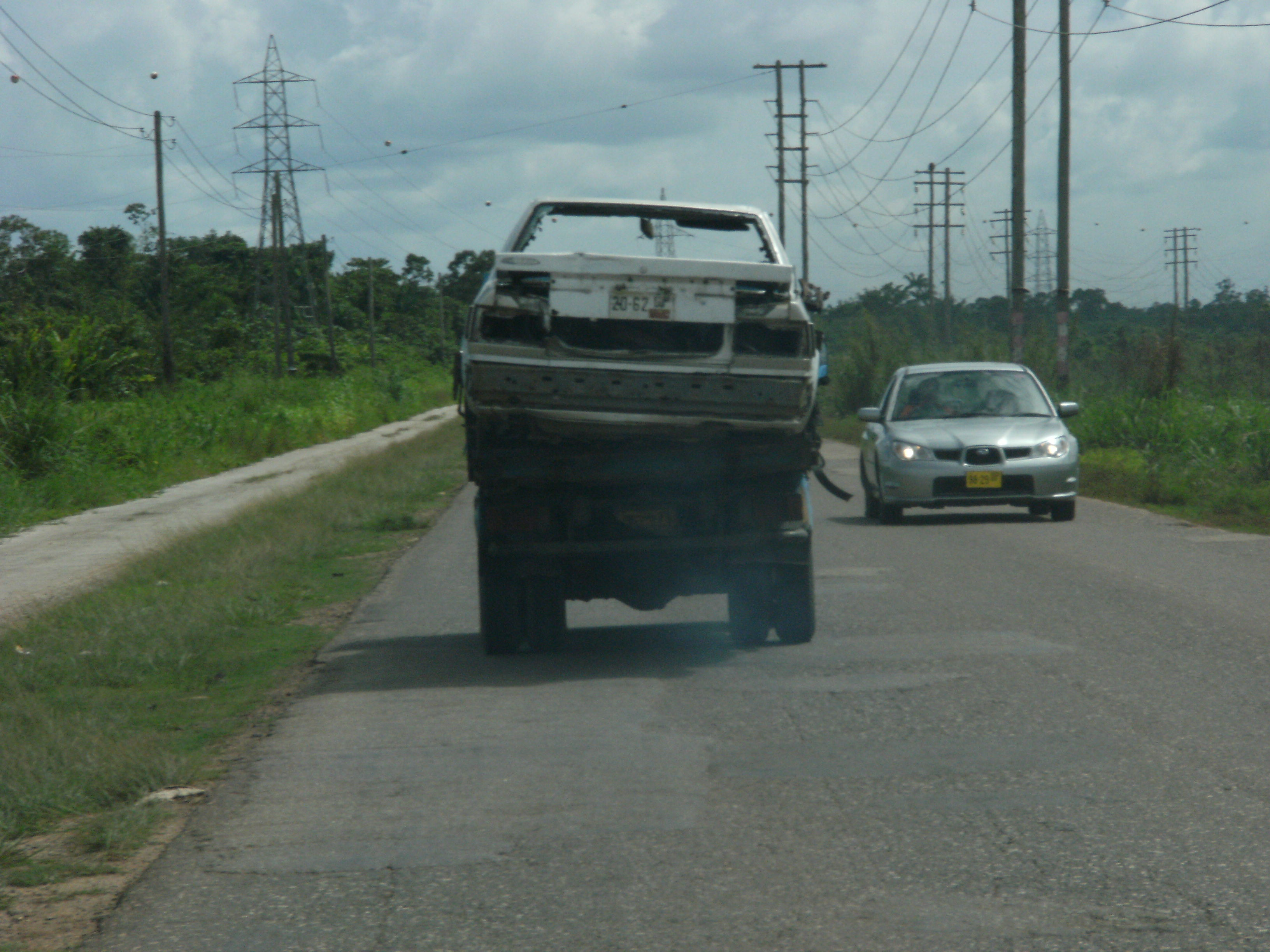 On Martin Luther Kingroad.